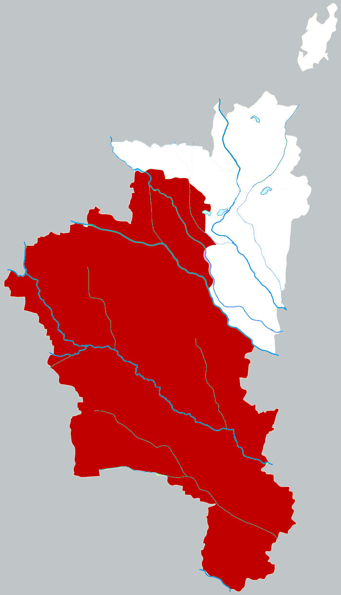 Location of Suixi county in Huaibei city, China